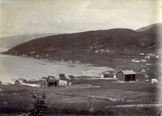 Skaland (front) and Søfting in the early (perhaps earliest?) 20th century.